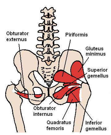 Posterior view of gluteal region showing the small gluteal muscles and gluteus minimus.